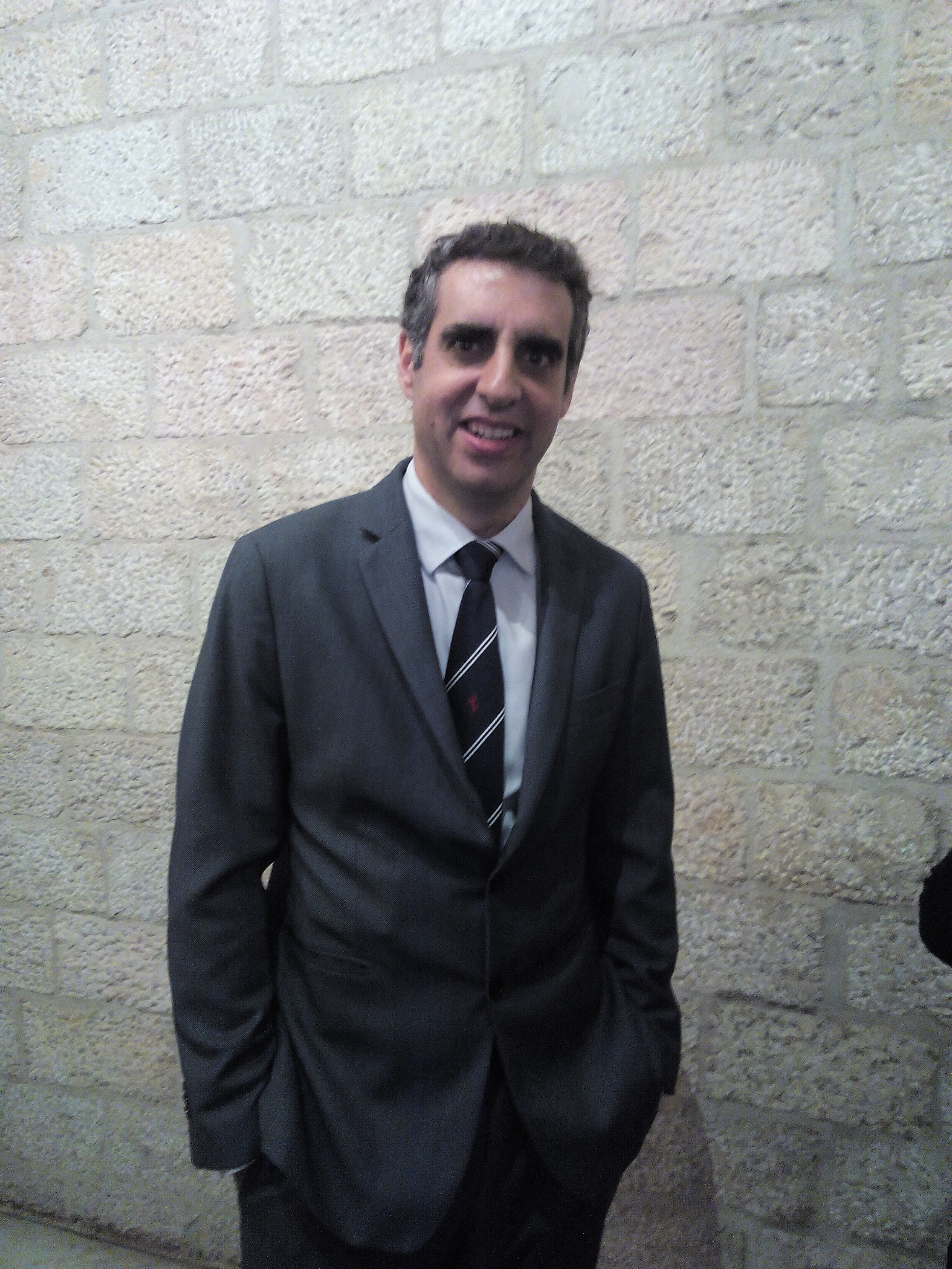 Manel Esteller in the XXVIII Premi Internacional de Catalunya